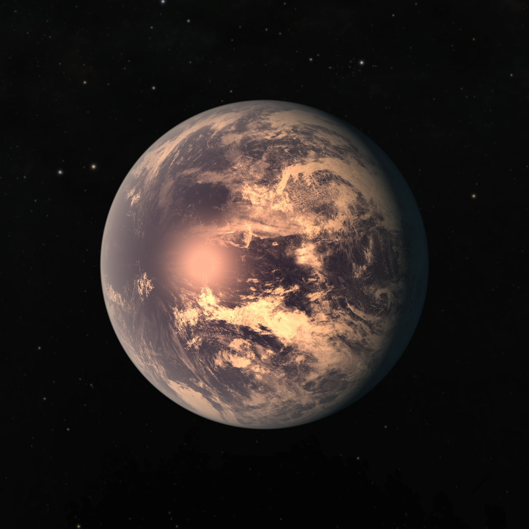 Artist's impression of the exoplanet TRAPPIST-1e, located in the Aquarius system of TRAPPIST-1. Originally created for NASA as part of their announcement of discoveries in the TRAPPIST-1 system on 22 February 2017. According to NASA, both TRAPPIST-1e and TRAPPIST-1f are depicted as "covered in water, but with progressively larger ice caps on the night side." Screenshotted and cropped from File:PIA21468 - TRAPPIST-1 Planets - Flyaround Animation.ogg.